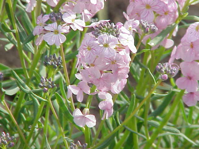 Species: Aethionema grandiflorum Family: Brassicaceae Image No. 1